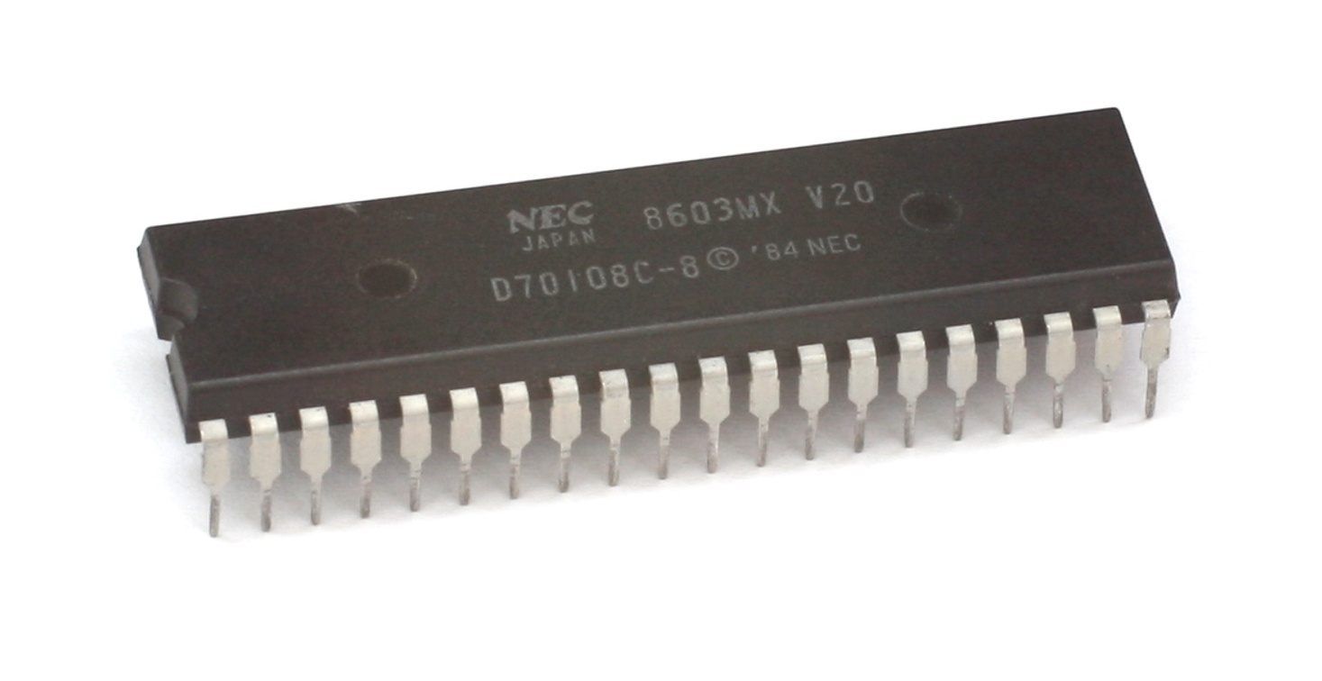 CPU NEC V20